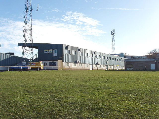 Torquay United Football Club. View from south of the football ground.